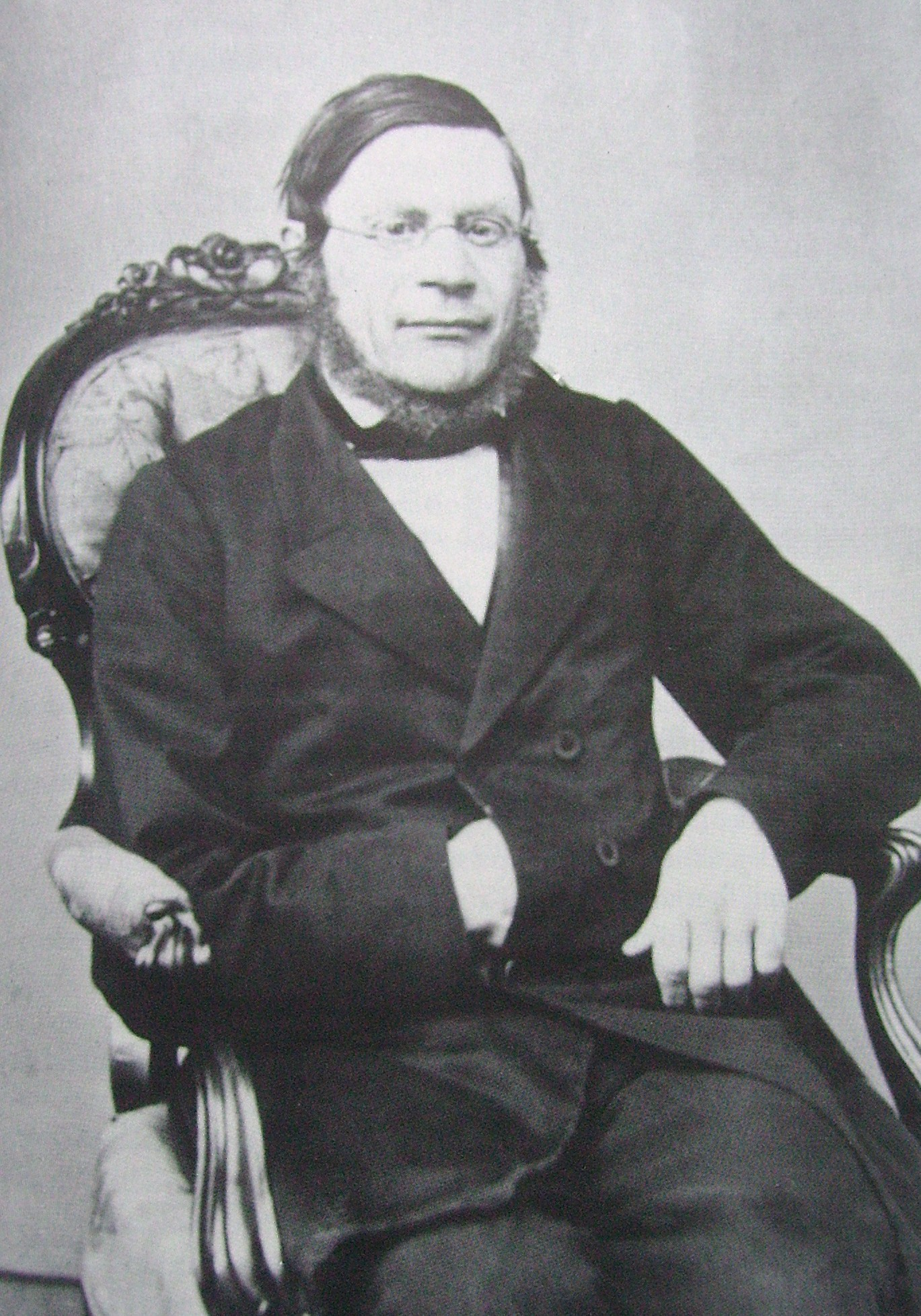 Picture of Sven Gabriel Elmgren, Finnish scholar and writer